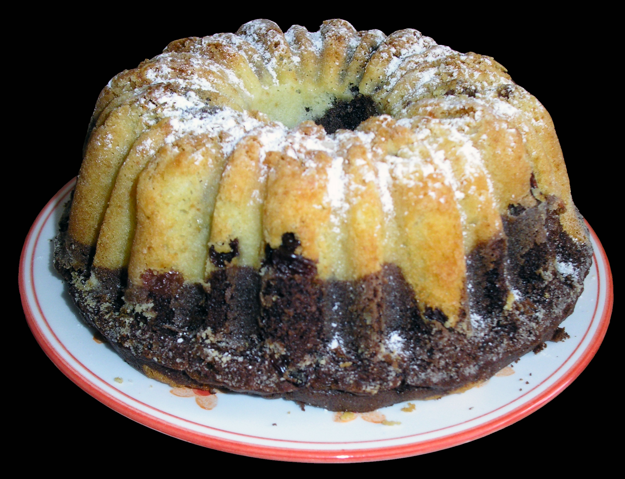 This is typical Czech kind of bundt cake, made from vanilla and cocoa batter, which explains the marble effect.